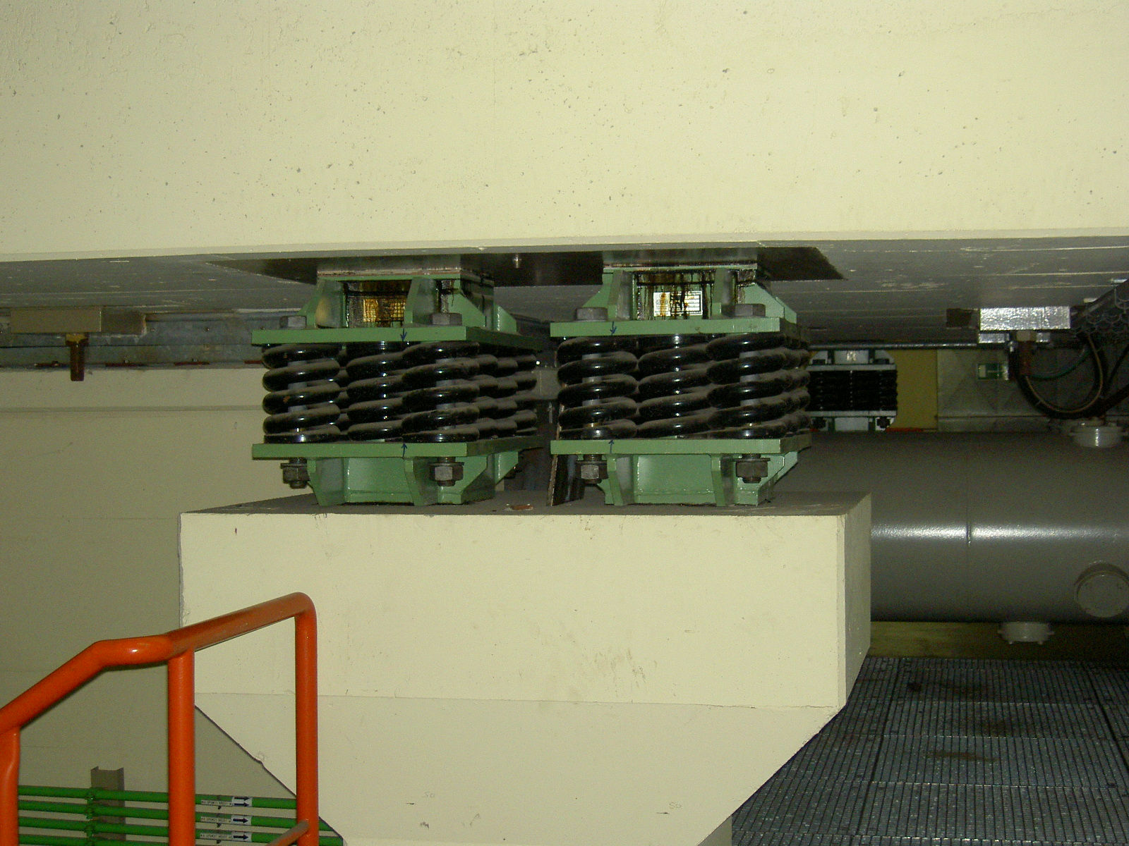 Shock absorber in Combined heat and power station of Berlin-Moabit.